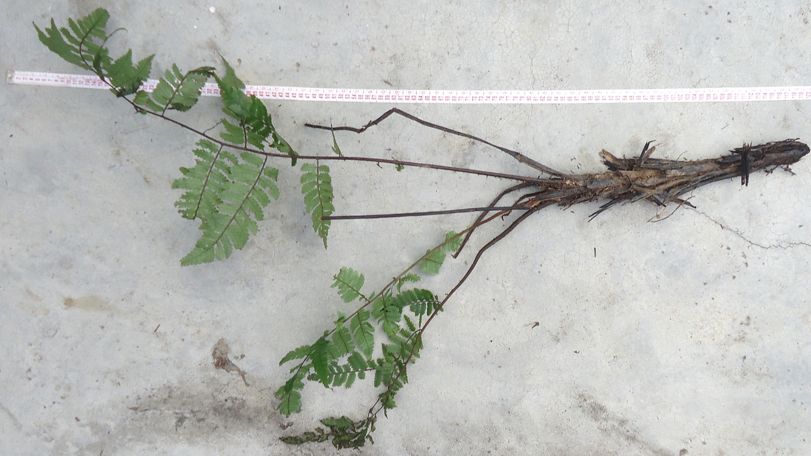 Cyathea pungens Domin